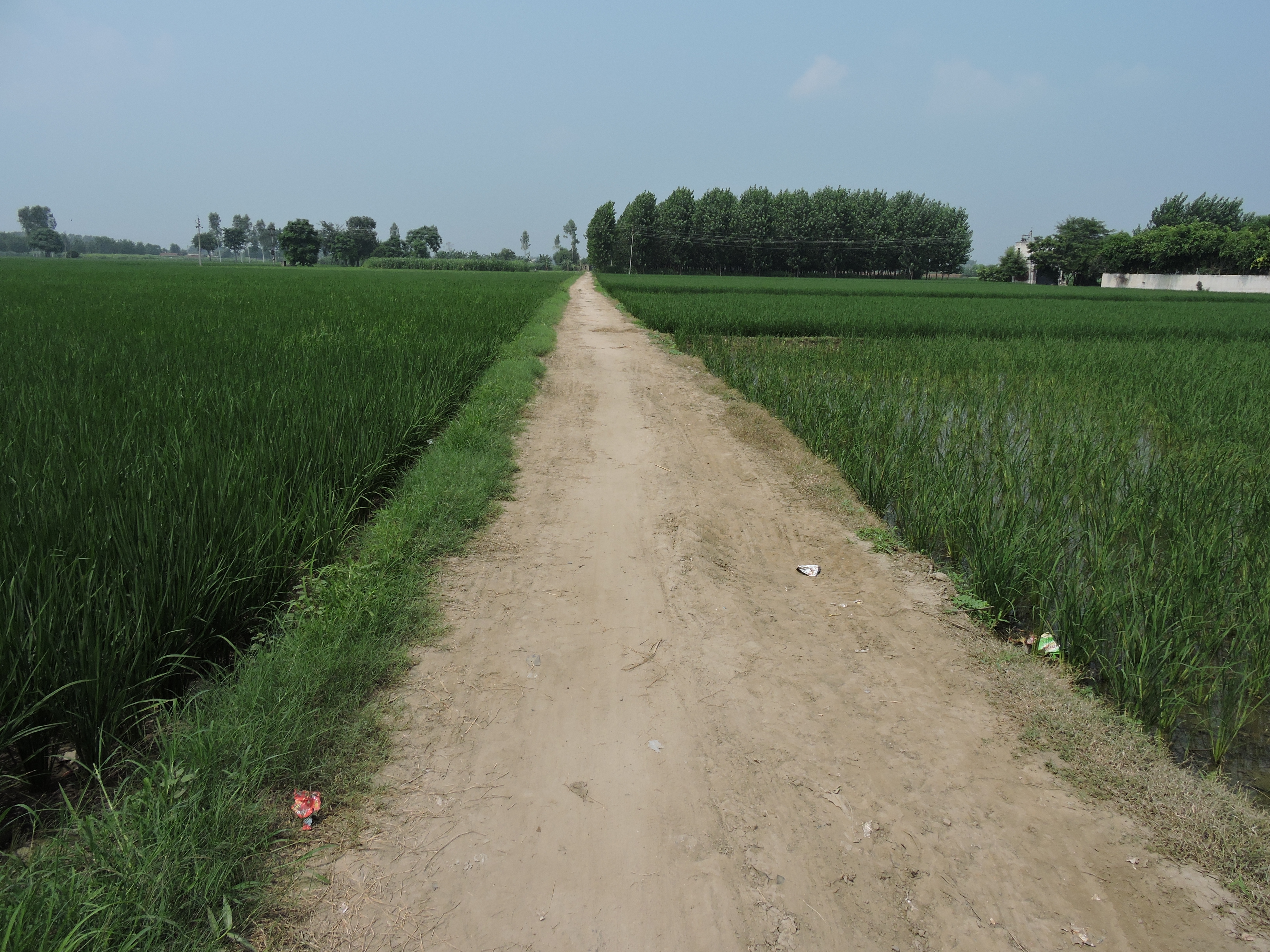 Landscape of Punjab,India in rainy season